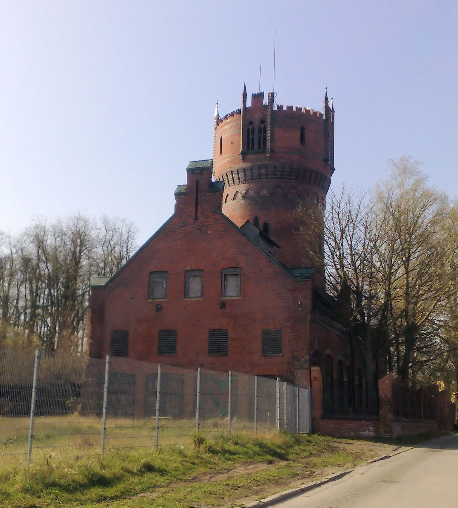 Water tower from 1897 at square Turnplatz in Wismar, Mecklenburg-Vorpommern, Germany